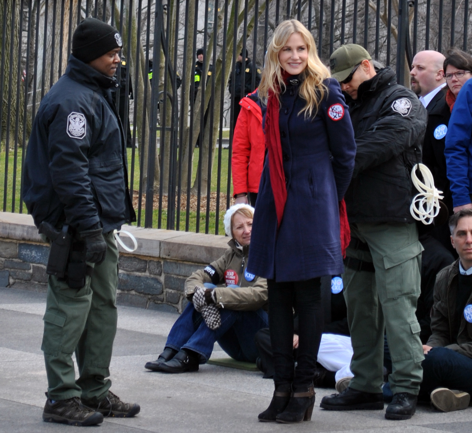 Daryl Hannah being arrested at the White House in 2013